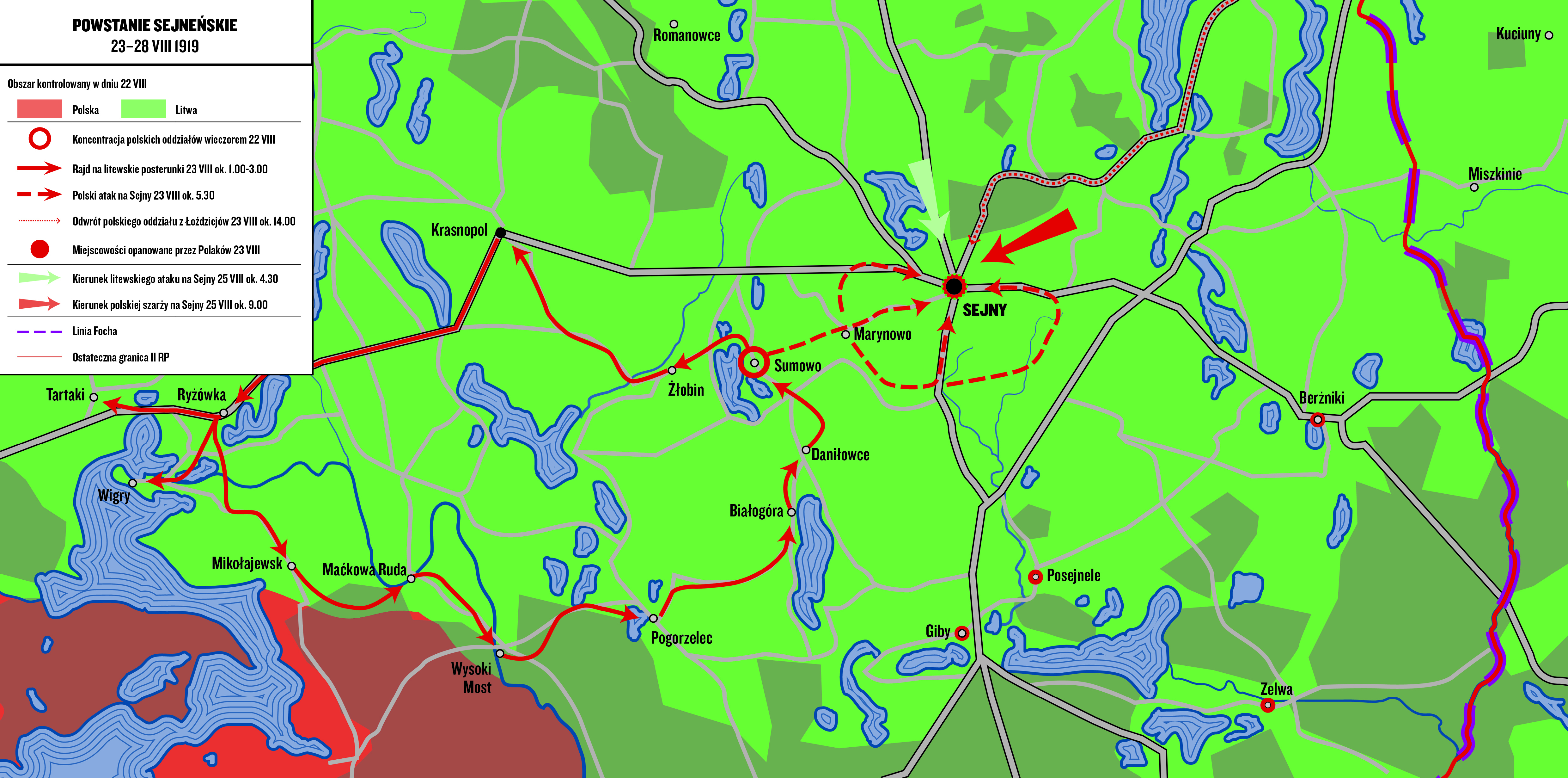 A map showing military acitivities during the Sejny Uprising (1919), including the activity of Polish insurgents, of the Lithuanian and Polish armies, and areas controlled by both sides of the conflict.